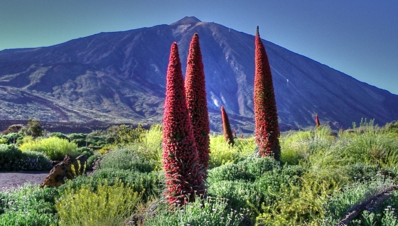 Echium Wildpretii growing in front of the Teide volcano Tenerife, Canary Islands.